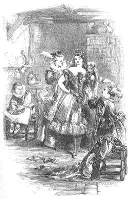 Illustration from William Harrison Ainsworth's novel The Lancashire Witches, published in 1854.